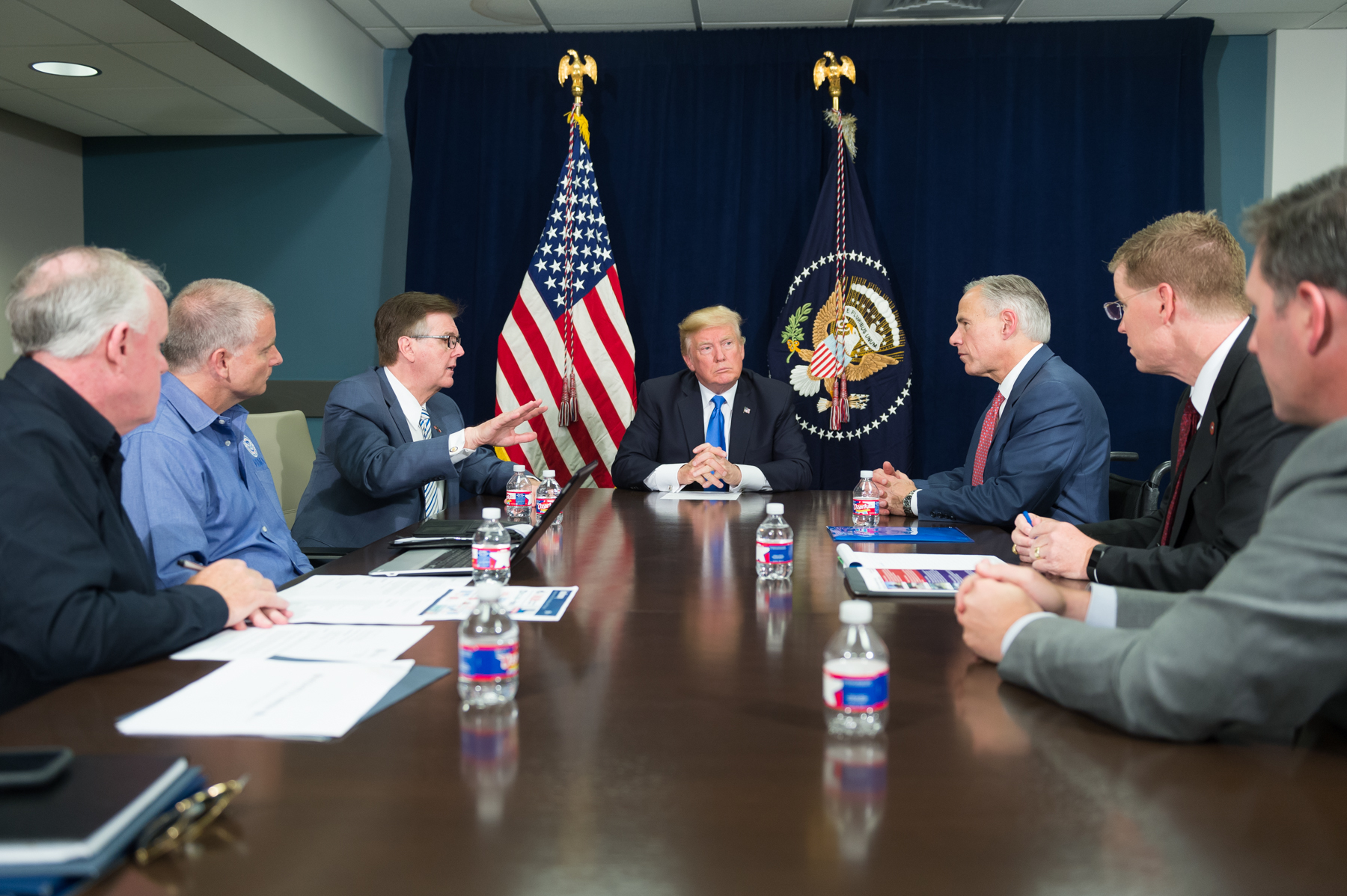 President Donald J. Trump, joined by Texas Gov. Gregg Abbott, Lt. Gov. Dan Patrick and FEMA officials, attends a briefing on the continuing Hurricane Harvey relief and recovery efforts, during a meeting in the Signature Flight Support facility at Dallas Love Field, Wednesday, October 25, 2017, in Dallas, Texas. Gov. Abbott thanked President Trump for his commitment to Texas.